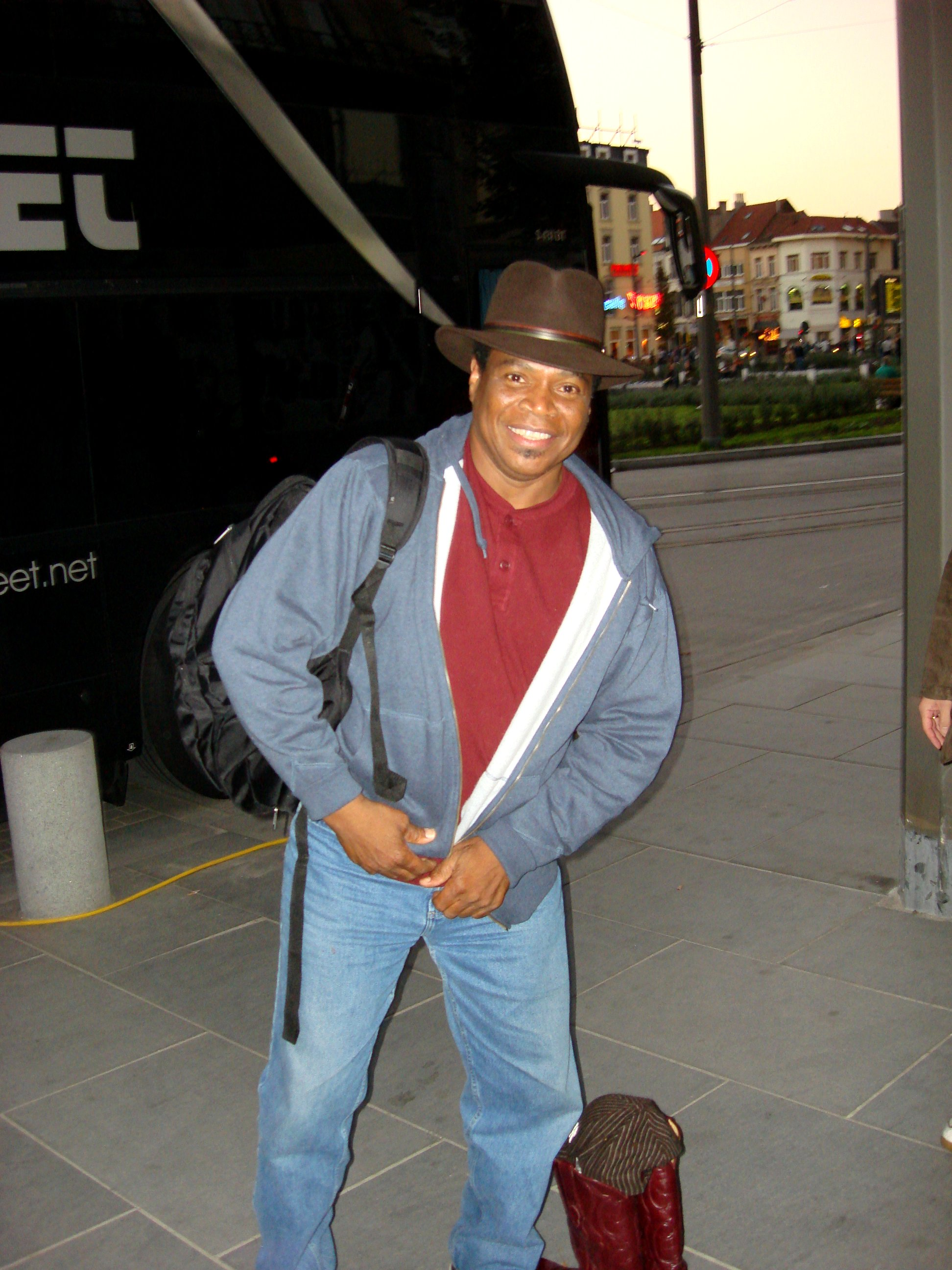 Photo of Ray White performing at the Antwerp gig of the ZPZ tour